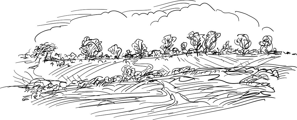 рисунок